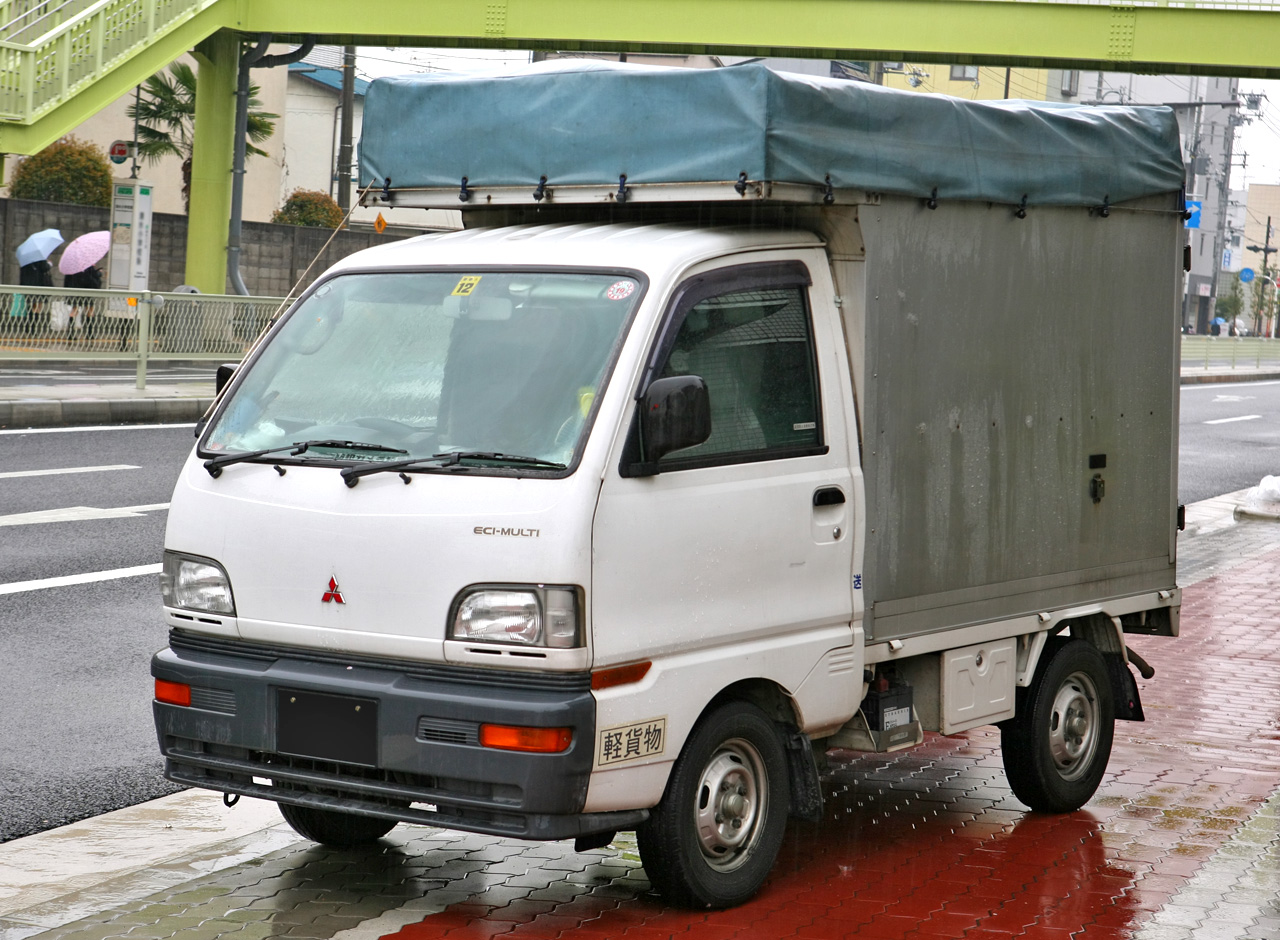 Fifth generation Mitsubishi Minicab truck